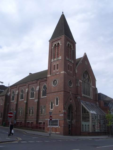 Parliament Street Methodist Church, Nottingham. SK5740 :: Parliament Street Methodist Church, Nottingham, near to Nottingham, Great Britain